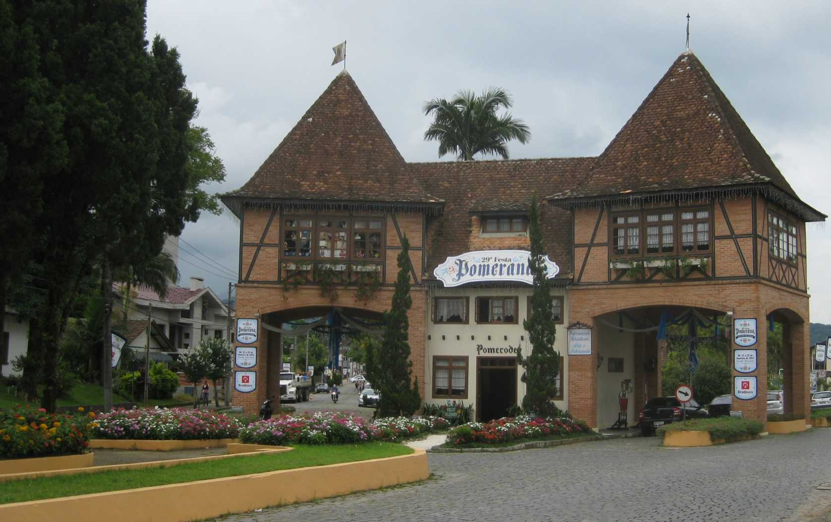 Pomerode, Brazil: South Gate (Portal Turistico Sul)